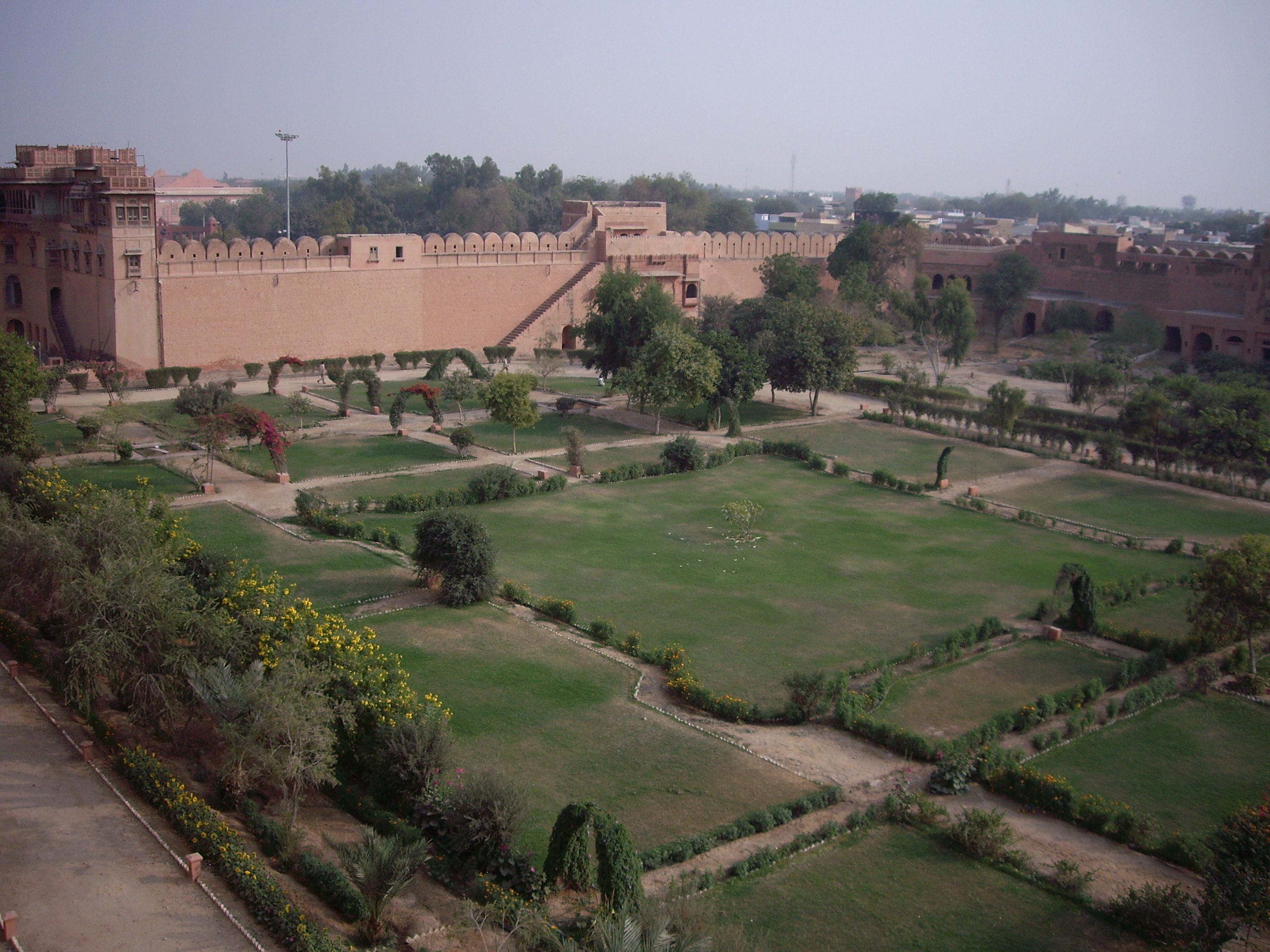 Gardens of Junagarh Fort, Bikaner, Rajasthan, India. View of the south-east corner of the fortified precinct.